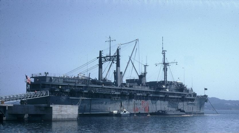 The U.S. Navy Fulton-class submarine tender USS Howard W. Gilmore (AS-16) at La Maddalena, Sardinia in late 1973/early 1974.